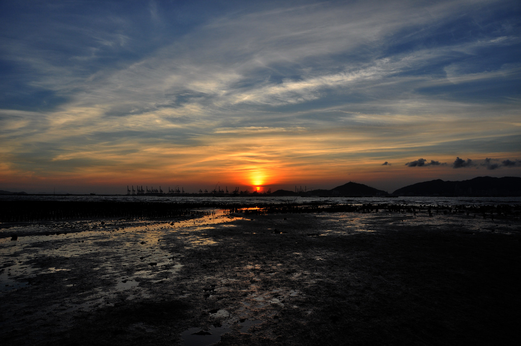 Sunset